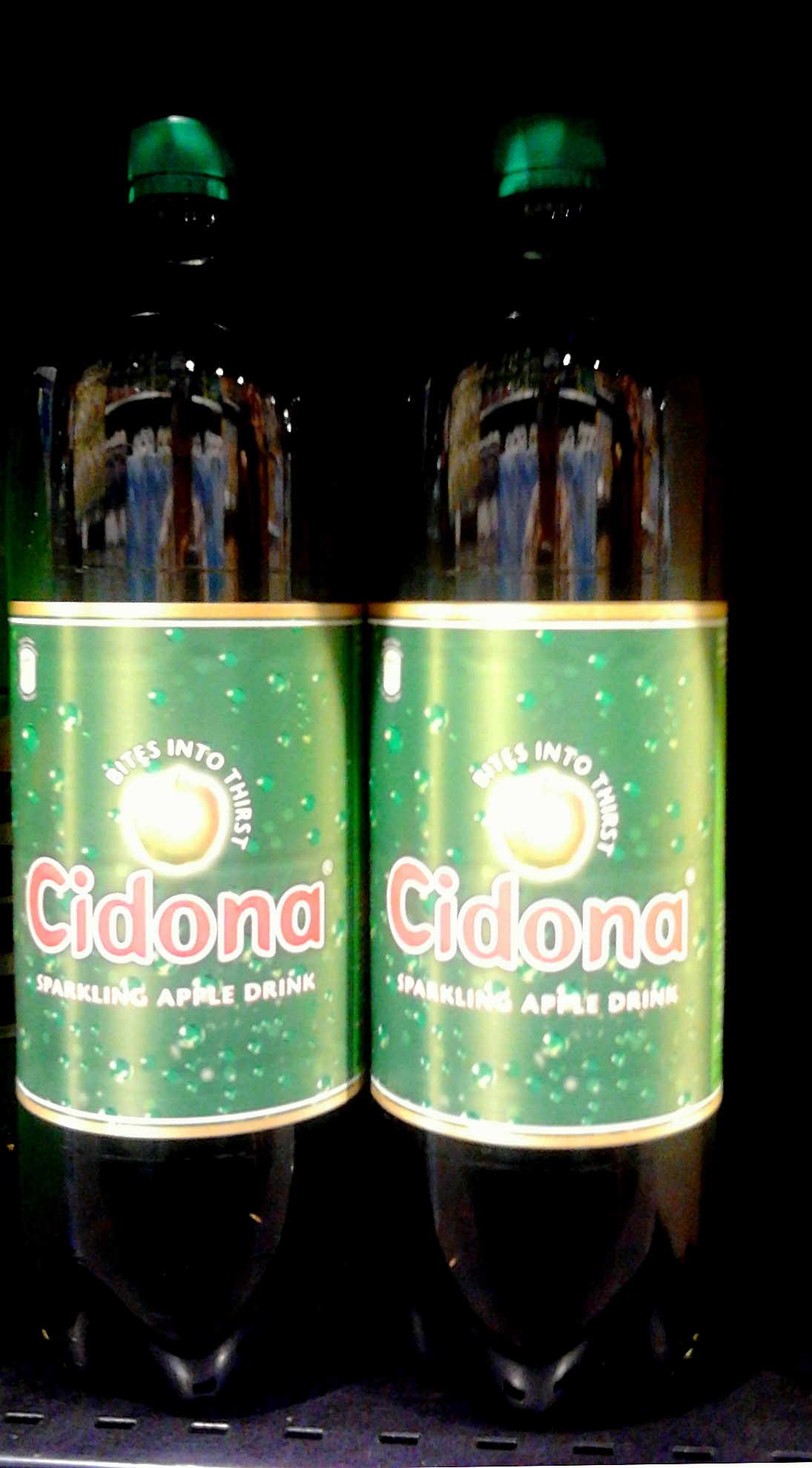 Cidona sparkling apple drink